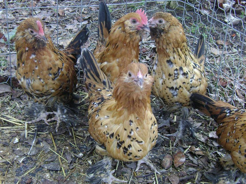 Four Mille Fleurs.